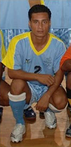 Felo_Feoto